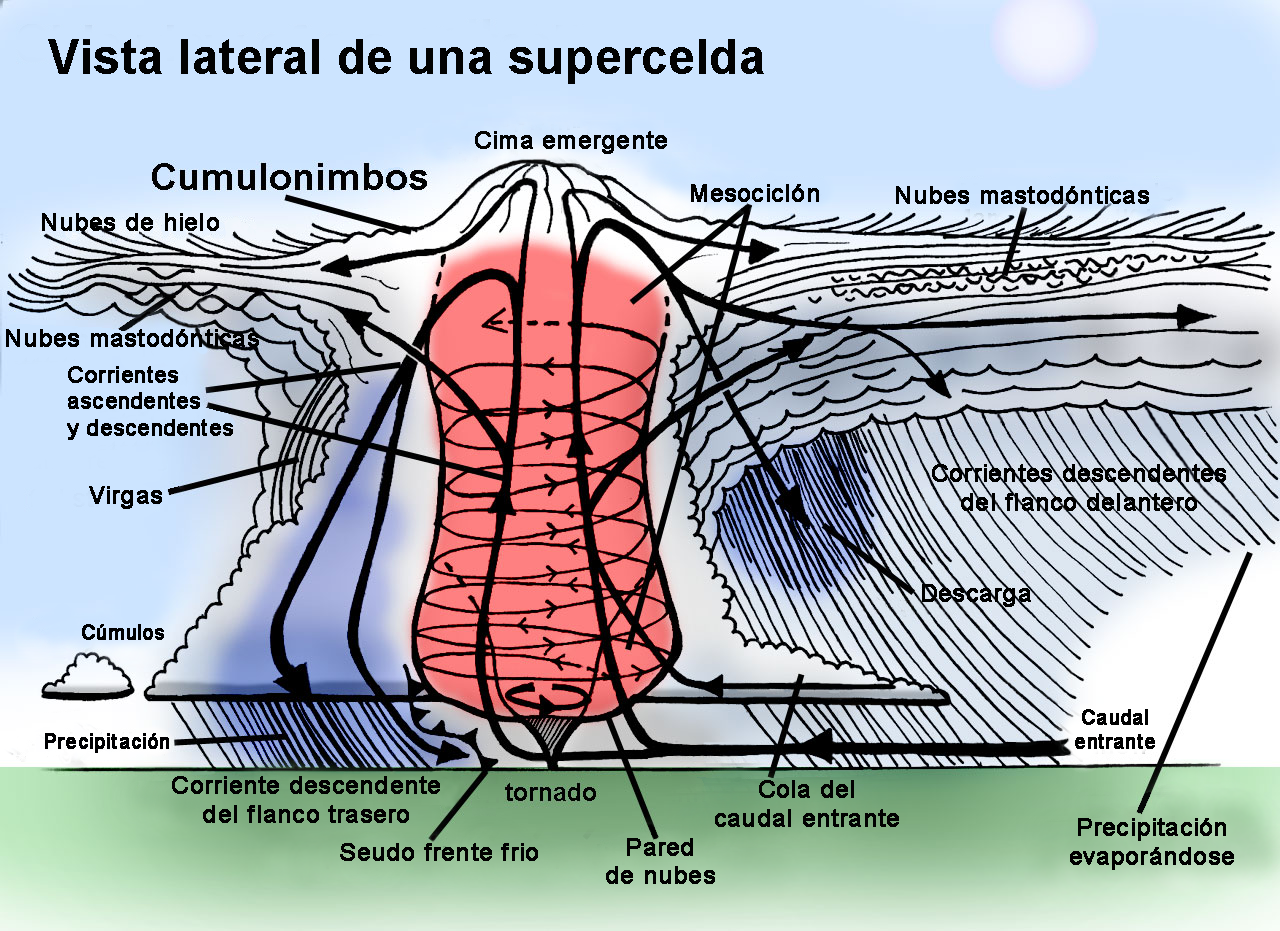 Side view of a supercell thunderstorm with labels in Spanish.